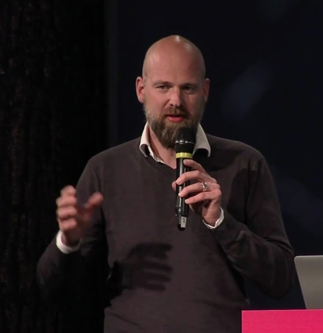 Find out more at: What if you not are entirely happy that there are 10 million news references to The Kardashians and only a couple of hundred about a suppressive regime as Belarus? What if the gap in wages between men and women is fixed at a 1970 level but no one seems to care? What if you want the political establishment to talk about culture but they simply don't? There are always one more untold store that can fascinate. A story interesting enough to be re-told. Per Cromwell Creative Director Christoph Brunmayr The Tale Studio Creative Commons Attribution-ShareAlike 3.0 Germany (CC BY-SA 3.0 DE)